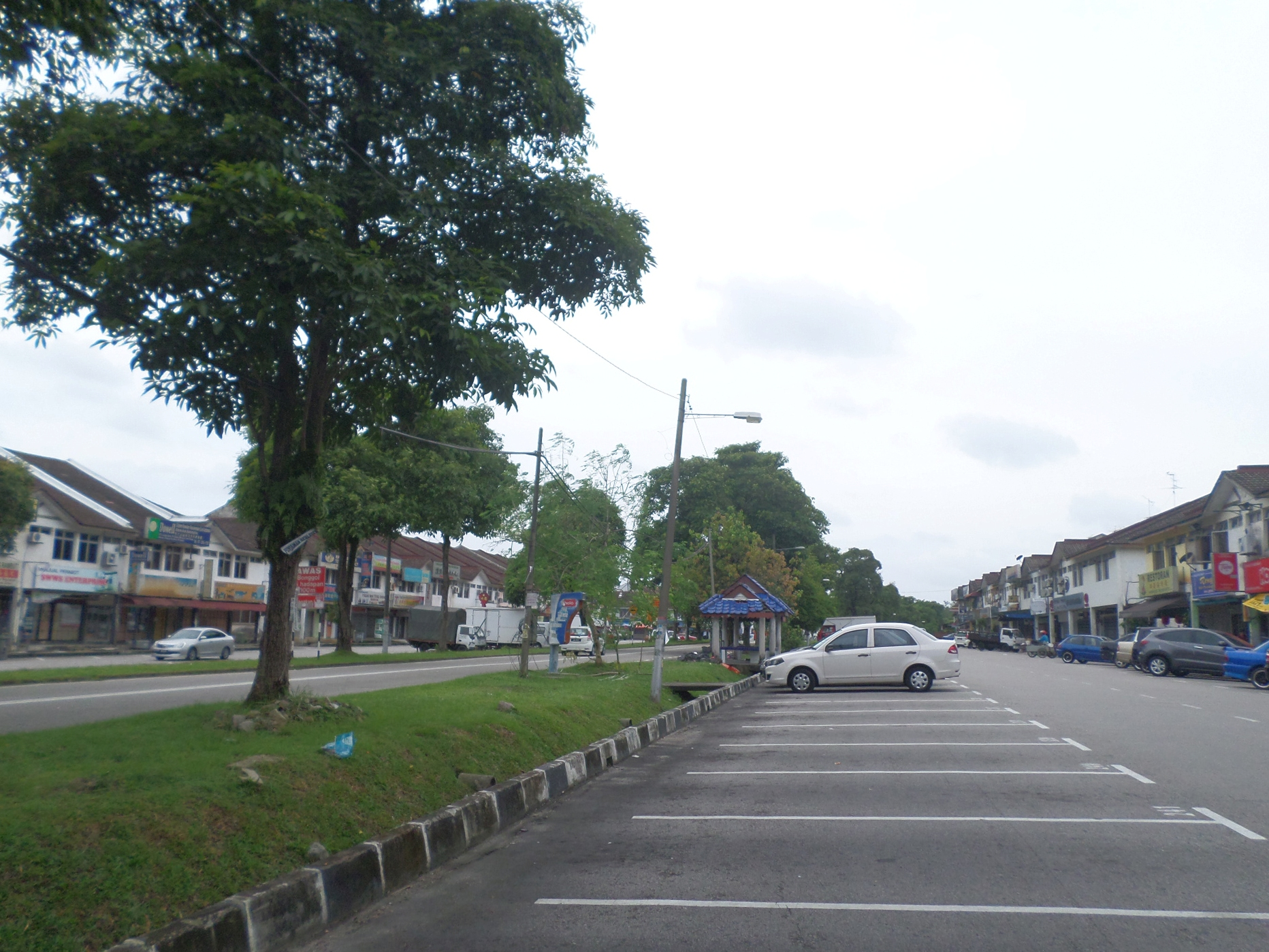 Taman Perling, Johor Bahru, Johor, Malaysia